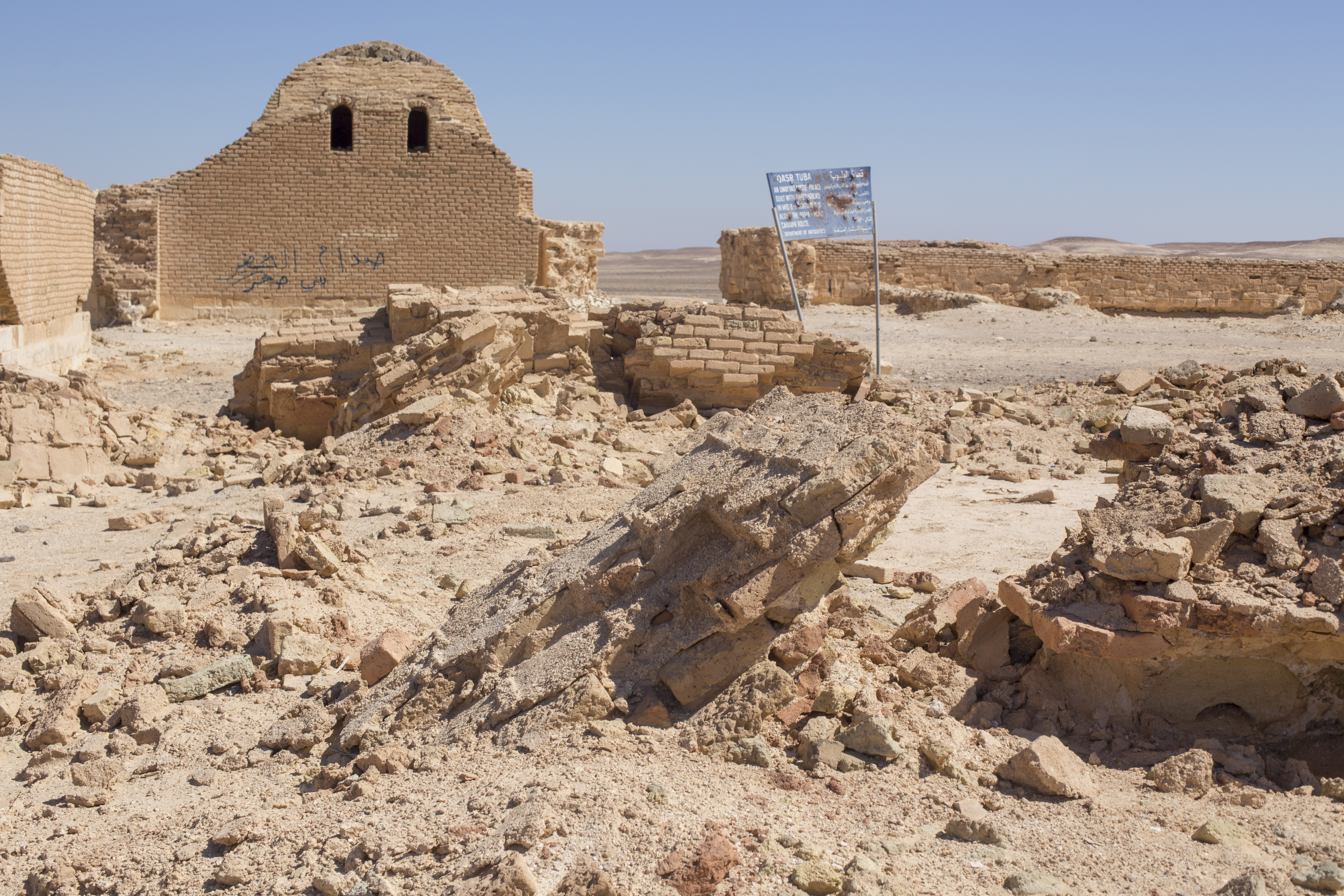 View of the better preserved parts of Qasr Tuba